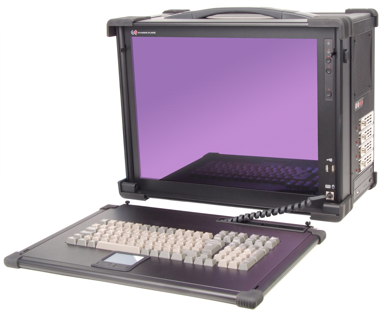 Chassis Plans MP1X20 Rugged Portable Computer Author: David Lippincott for Chassis Plans